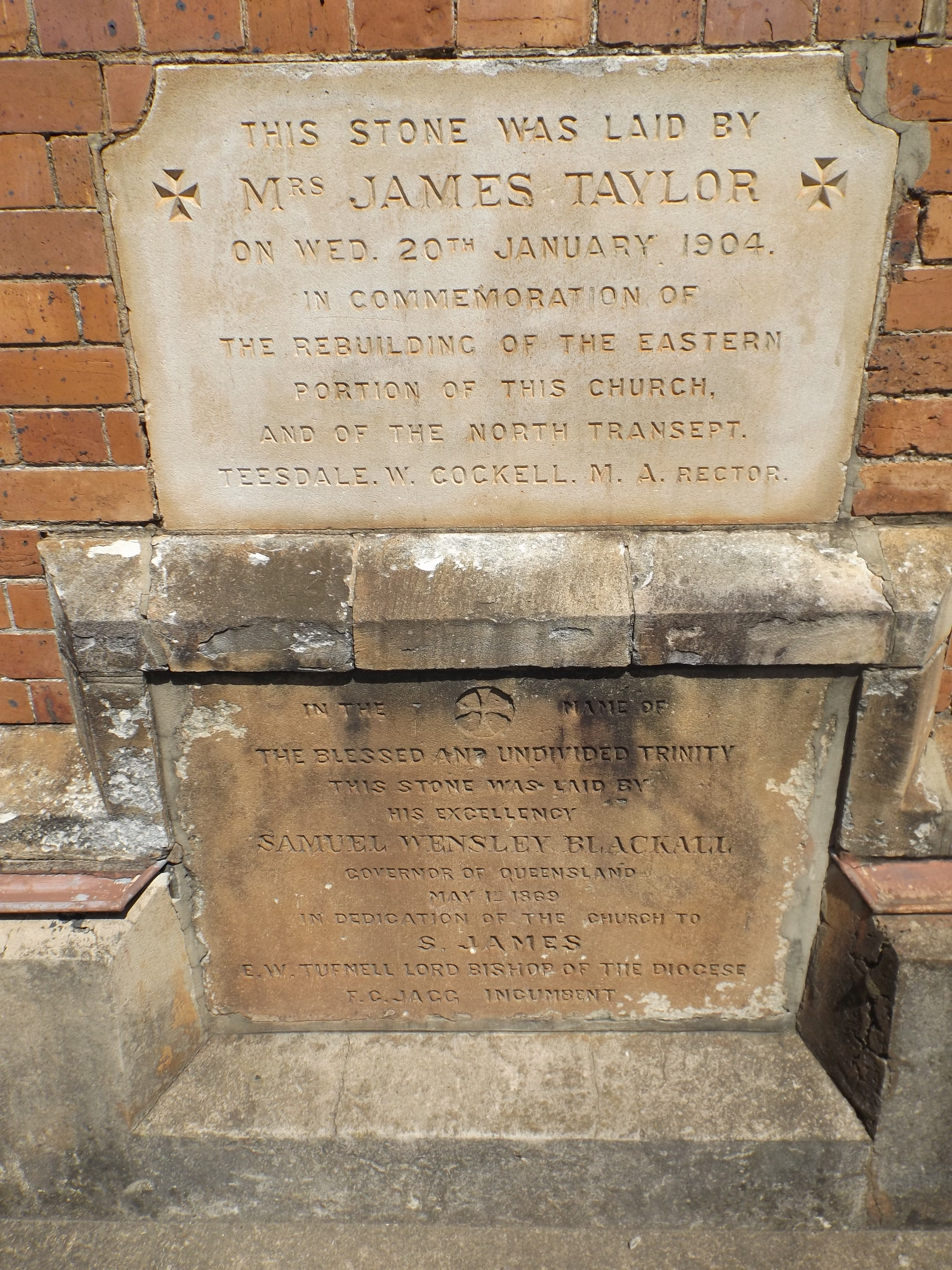 Photo of St James Church foundation stone in Toowoomba, Queensland, Australia.